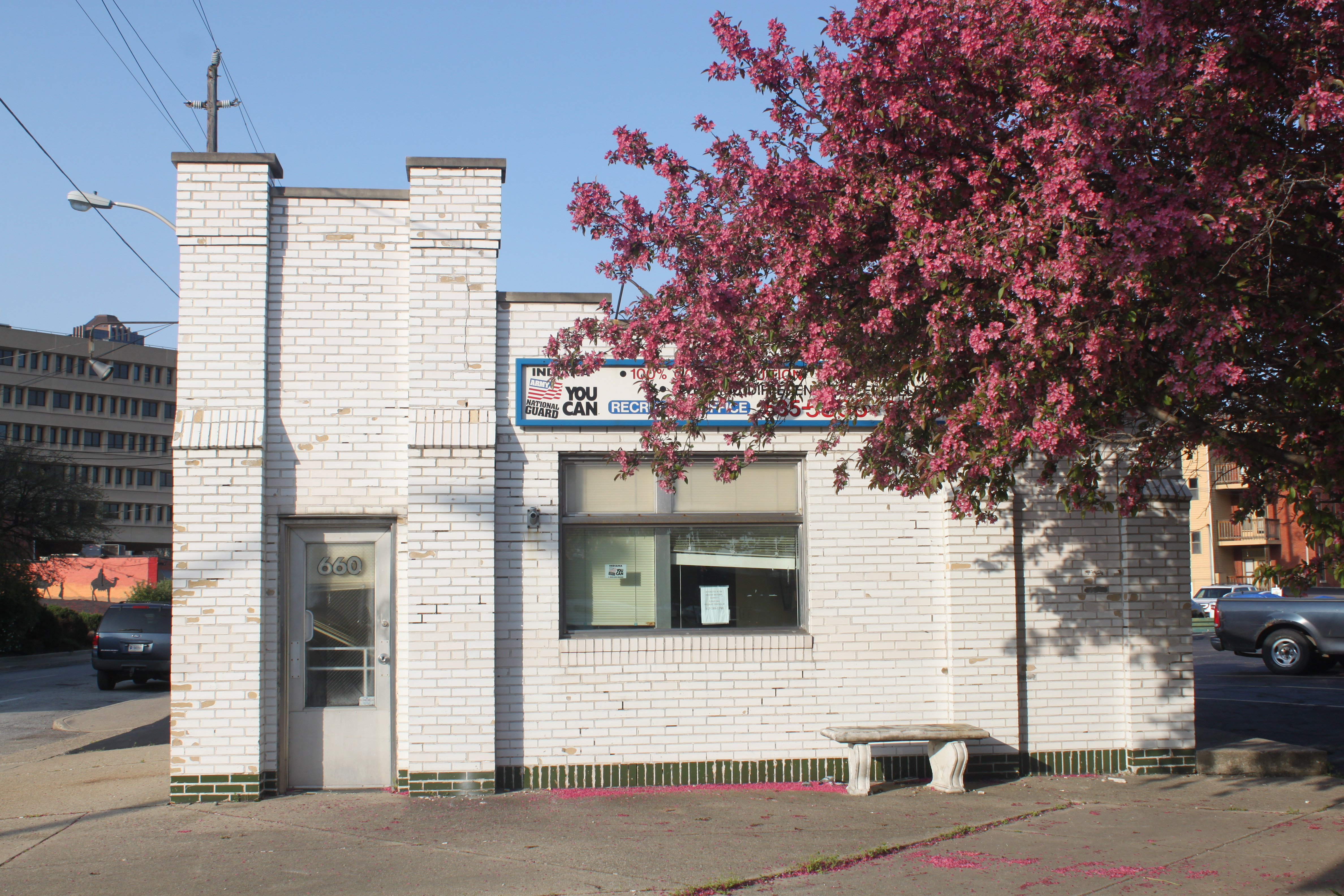 Indianapolis White Castle #3, Front Elevation taken April 2015